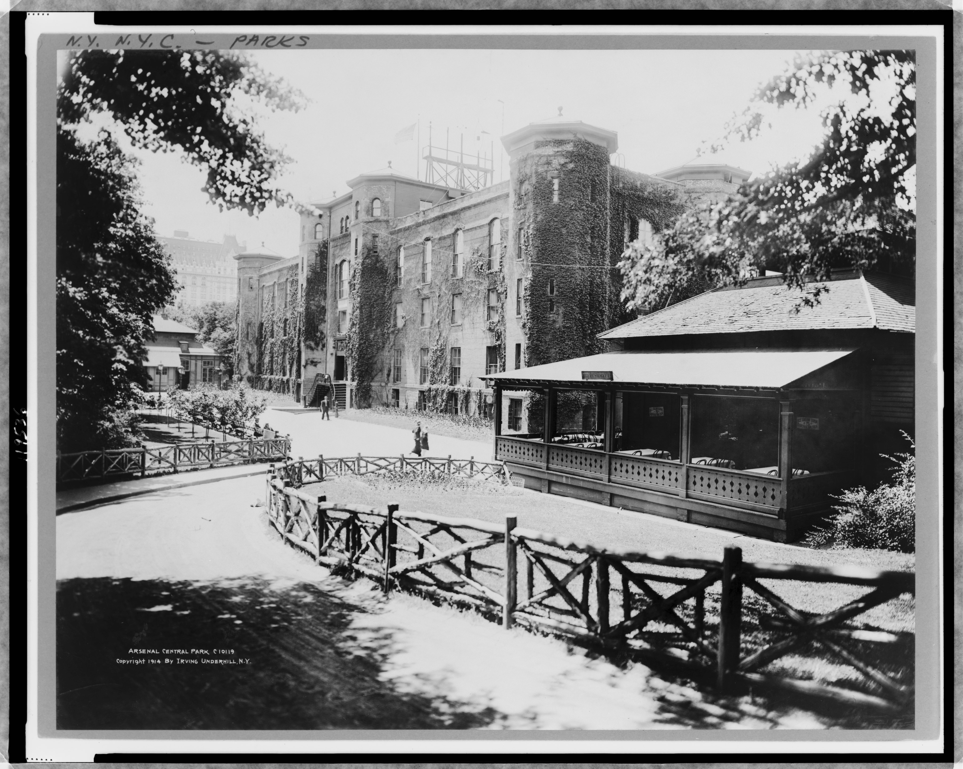 Title: Arsenal Central Park Abstract/medium: 1 photographic print.